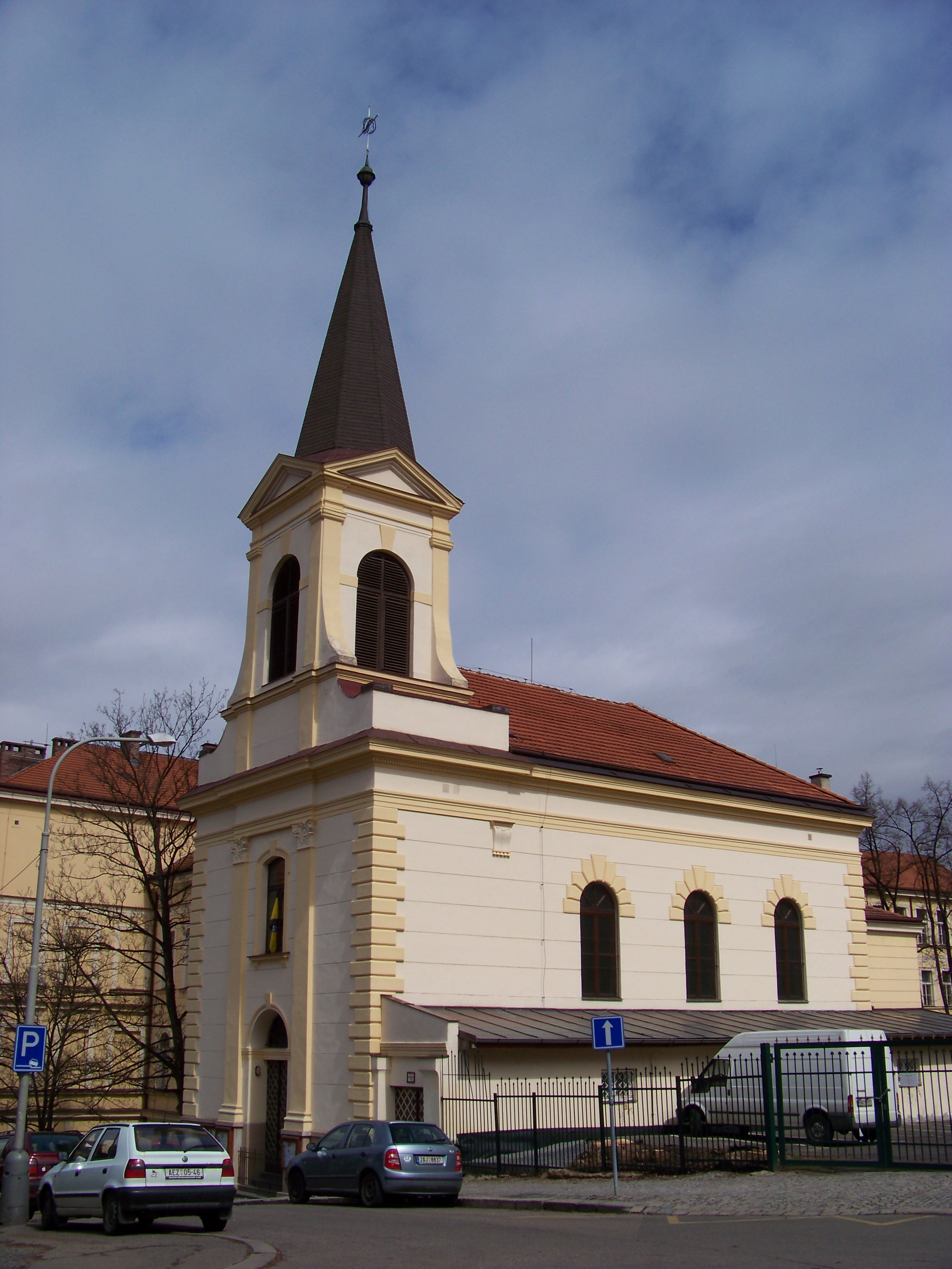 Prague-Nusle, the Czech Republic. Vladimírova and Pod vilami street, church of Saint Wenceslaus. - OpenStreetMap(Info)